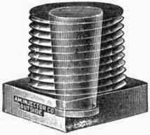 Drawing of a fusible plug. "A fusible plug is a brass plug with a tapering center of Banca tin."